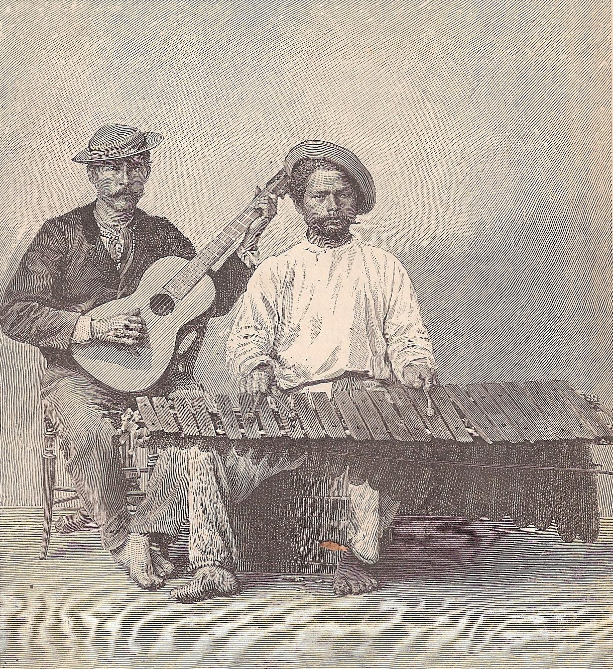 "The Marimba"